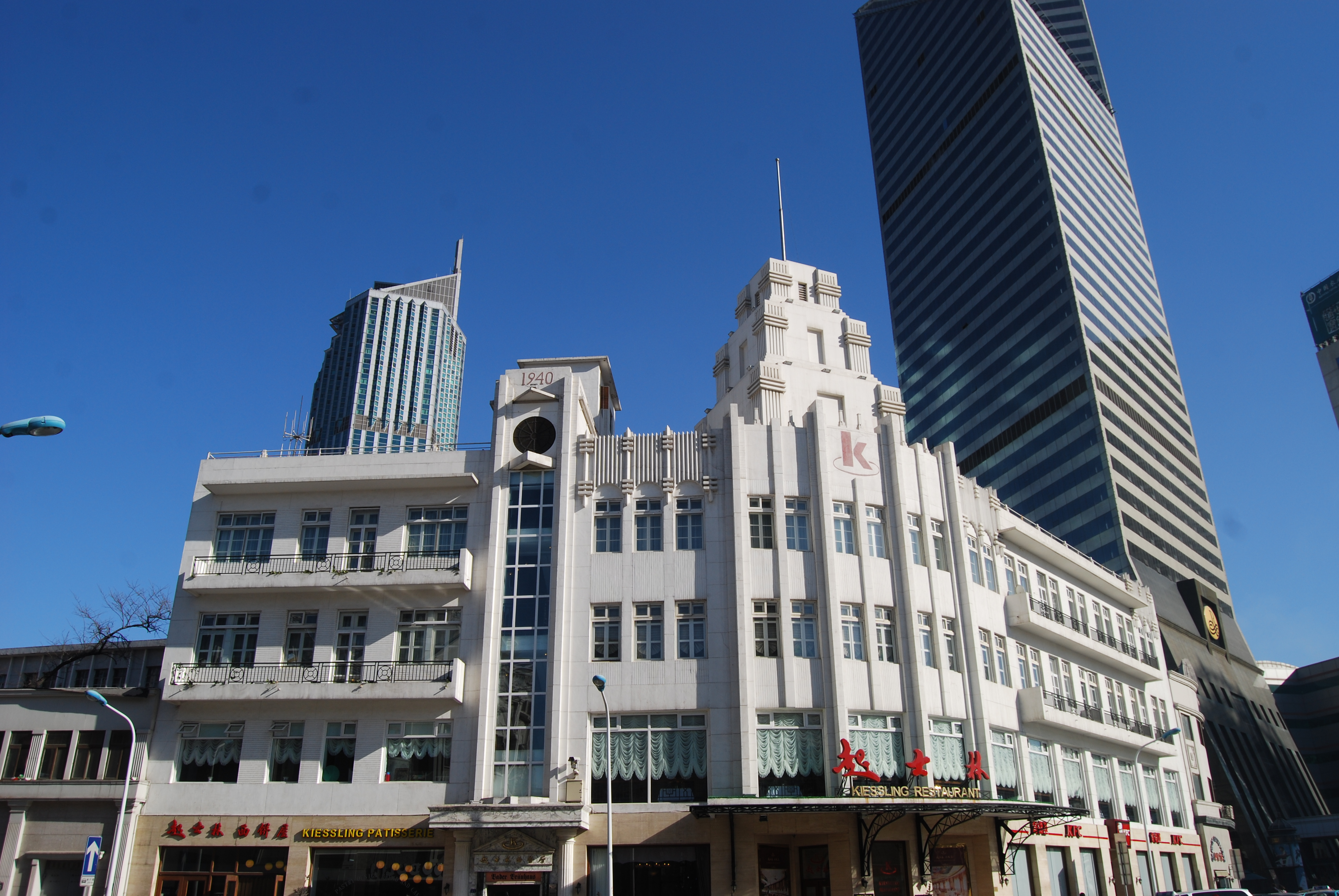 Kiessling Restaurant (起士林餐厅), a.k.a. Victory Restaurant (维克多力餐厅) on the corner of Zhejiang Lu and Jianshe Lu in Heping District, Tianjin